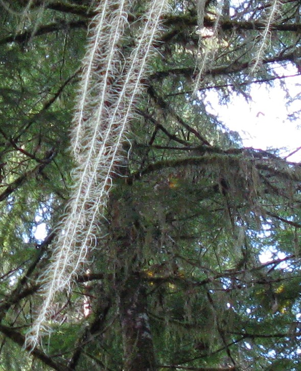 Dolichousnea longissima, showing detail of a stalk-and-leaf-like structure remarkable in a fungal growth